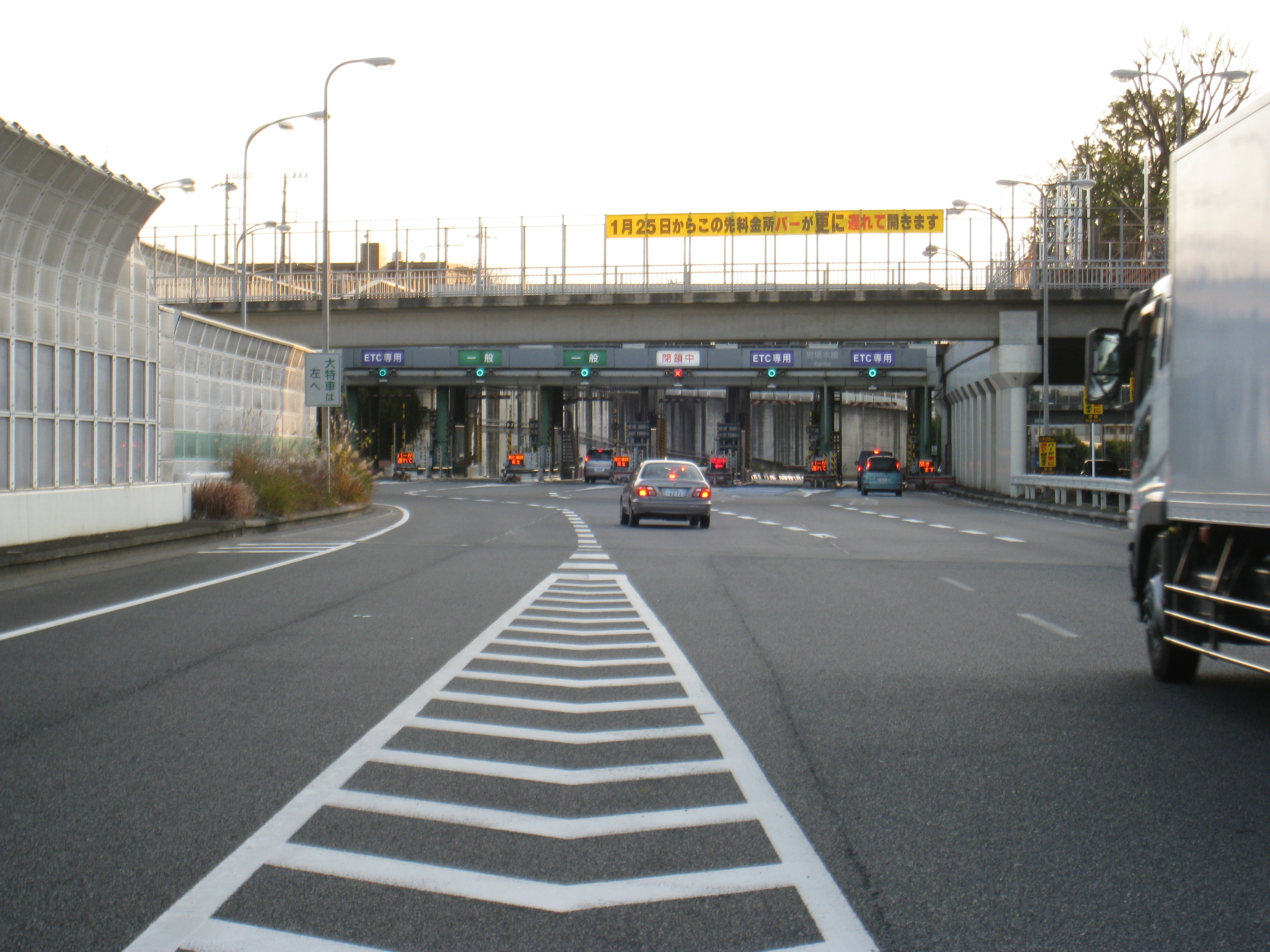 Kariba Interchange